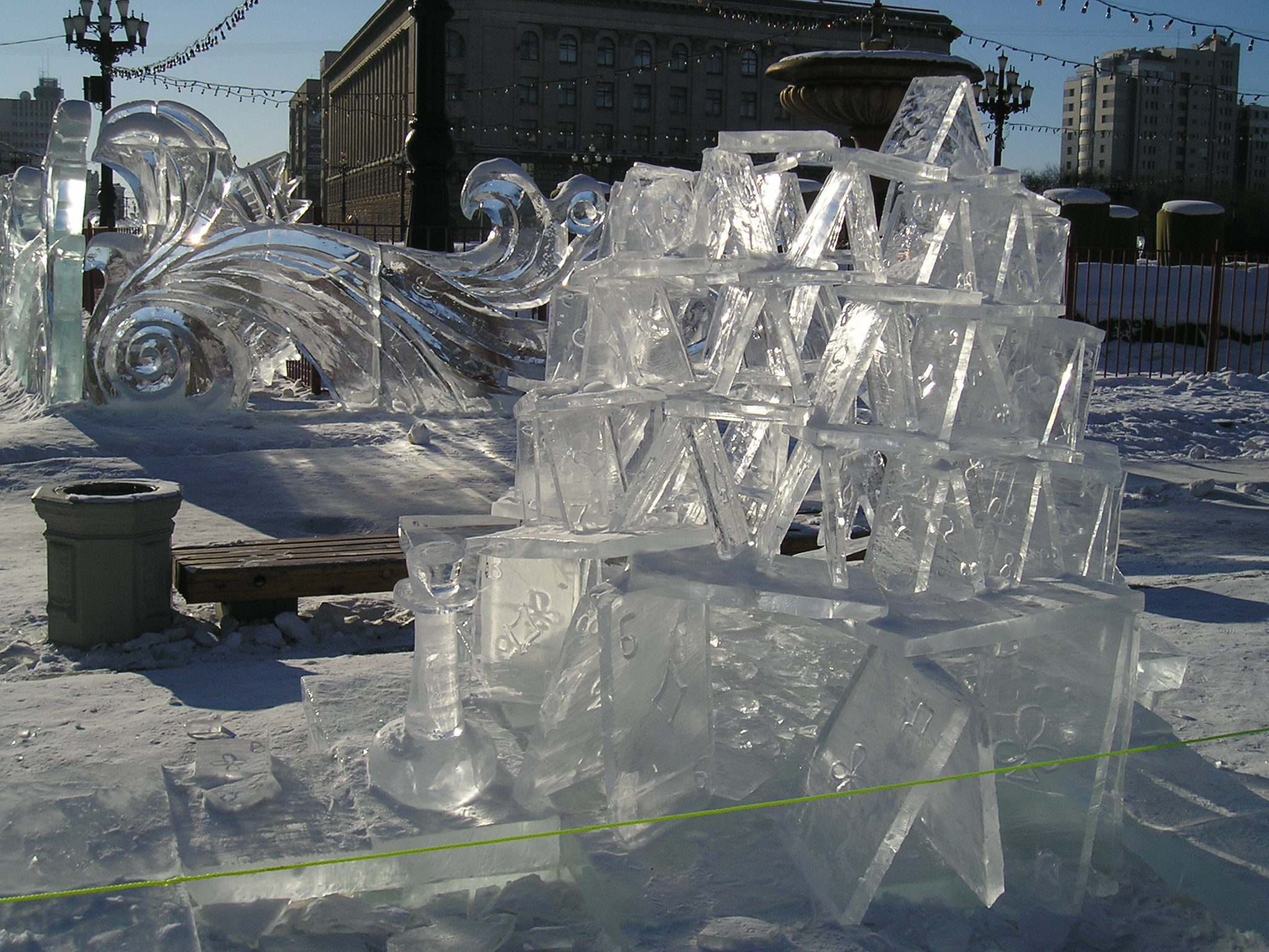 Ice figure fest in Khabarovsk 2006